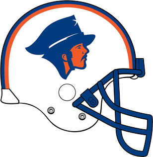 Helmet of LFA team Artilleros de Puebla